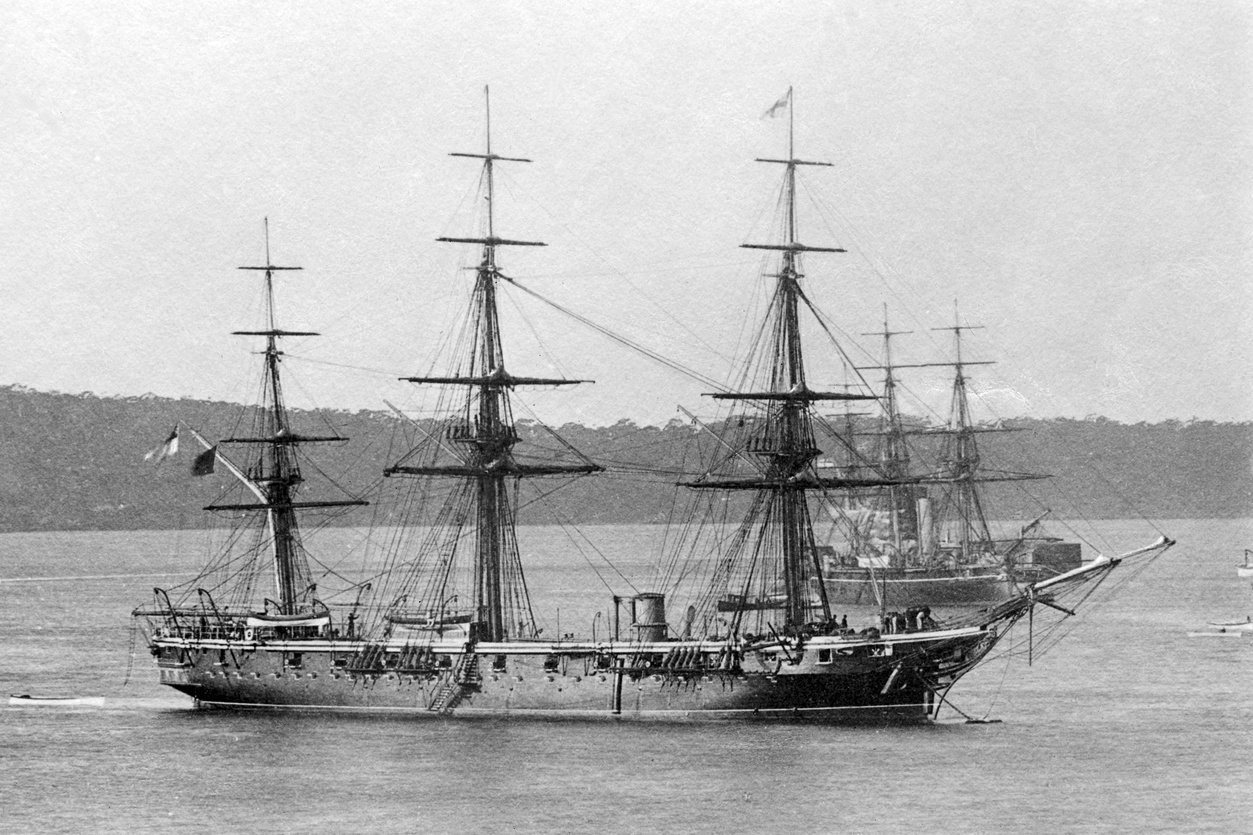 Sydney, NSW. 1881-07. Starboard side view of the screw corvette HMS Wolverine, flagship of Commodore Second Class John C. Wilson, Commander of the Australia Station, moored in FARM COVE. Beyond her is the screw corvette HMS Carysfort, of the visiting detached squadron, and Fort Denison.